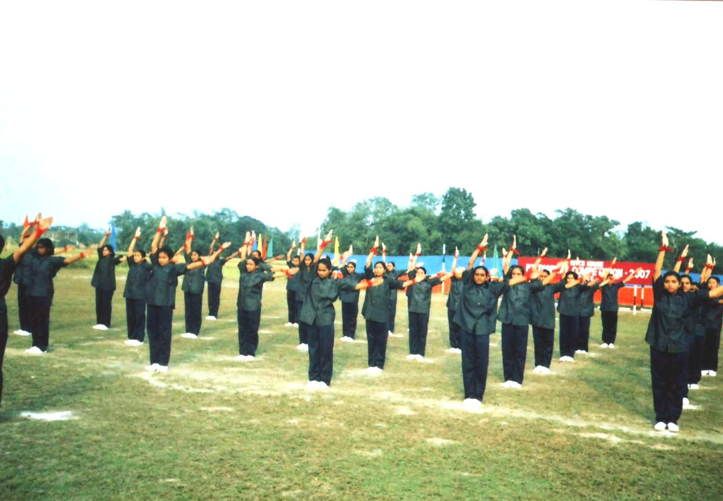 Inter House PT Display Competition, Feni Girls Cadet College. Feni District, Bangladesh